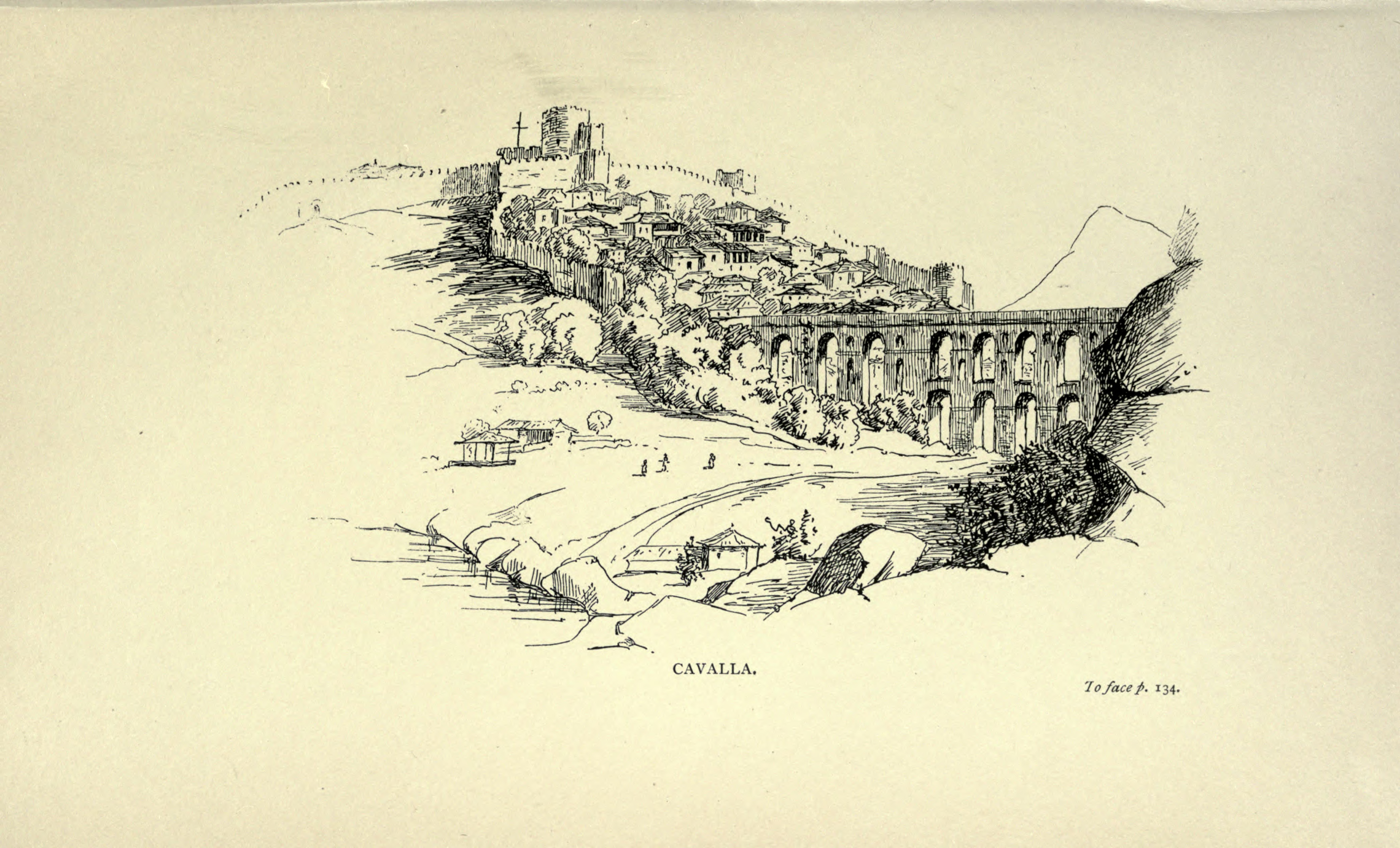 Cavalla by Mary Adelaide Walker